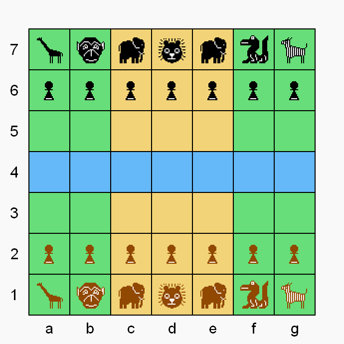 Congo gameboard and starting position, using Ed Friedlander's free-use fairy chess icons (the ape & alligator were modified from 3-color to 2-color; the lion was modified to solid-color)